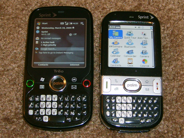 A picture showing the Palm Centro and its successor in the Palm line, the Treo Pro.